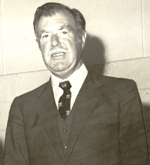 Photo of Frank O'Flynn in 1972.